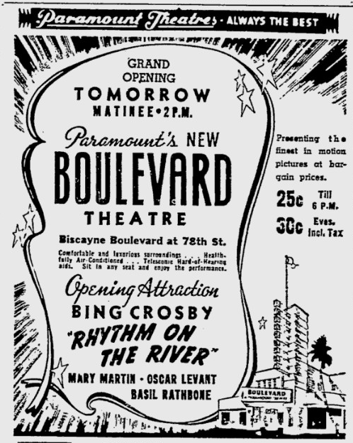 Newspaper ad for the 1940 grand opening of the Boulevard Theater in Miami, Florida, showing the American film Rhythm on the River (1942).